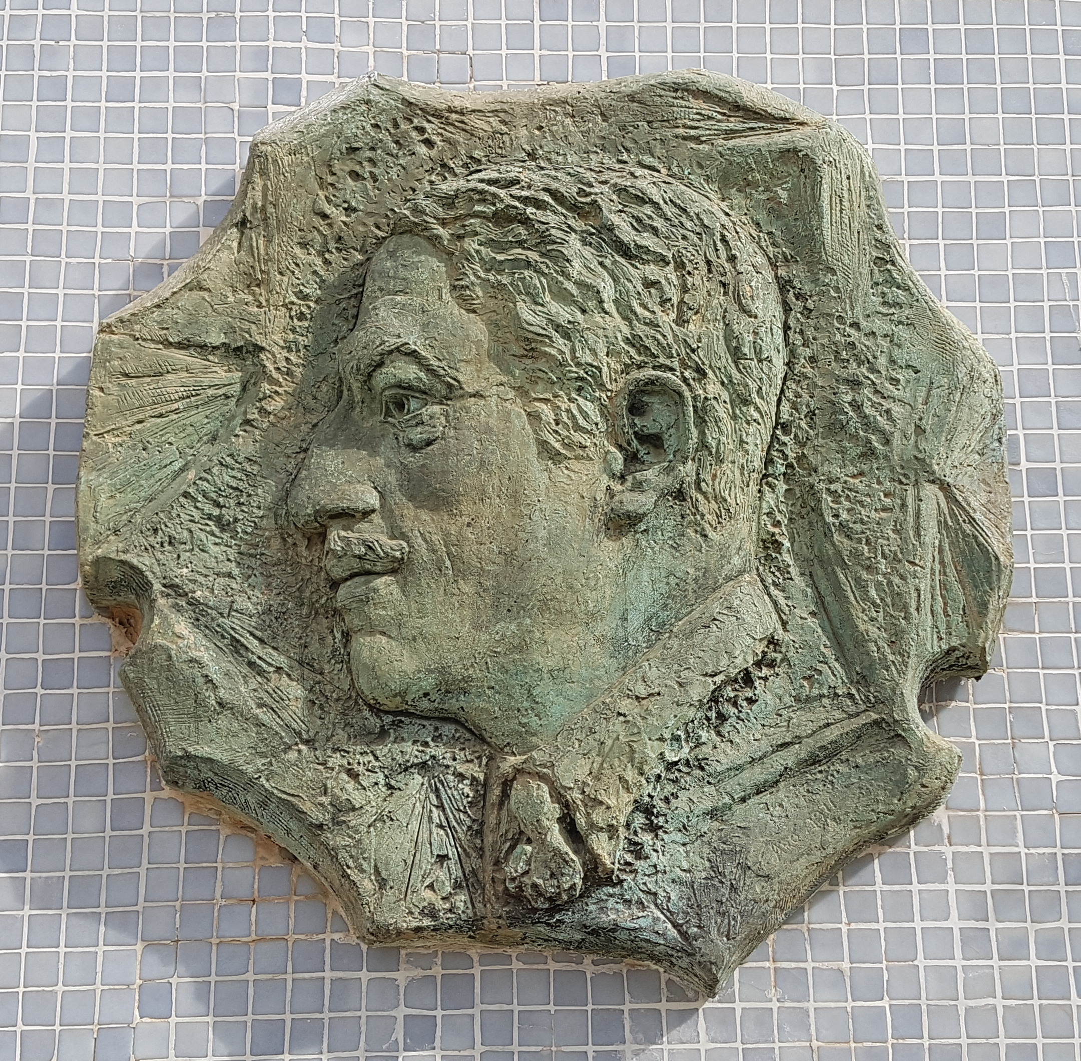 The monument to Alfonso Torres is the work of the sculptor Manuel Ardil Pagán, and was inaugurated in 1971 in the park of the same name.